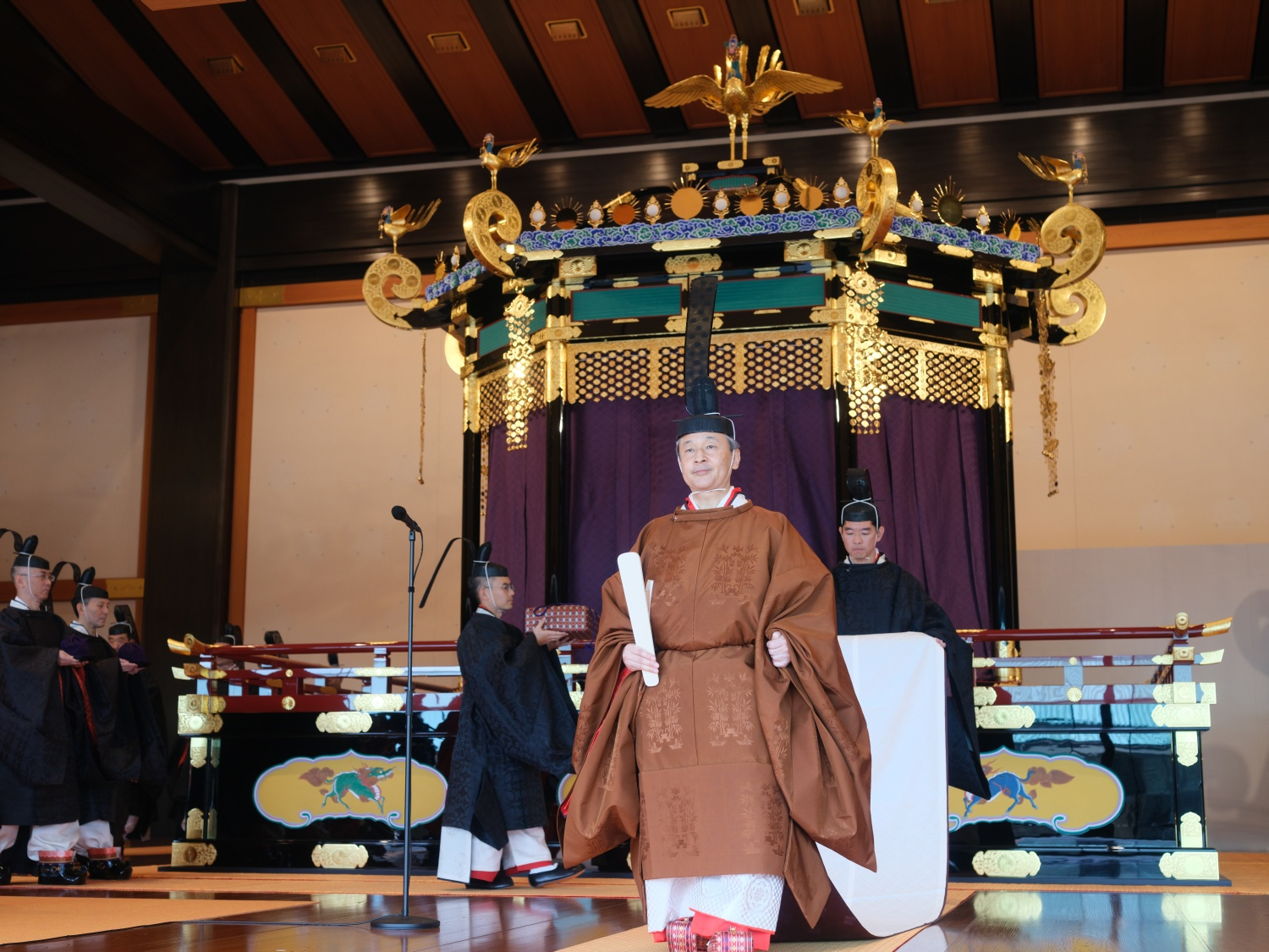 The 126th Emperor, Naruhito, Enthronement Ceremony